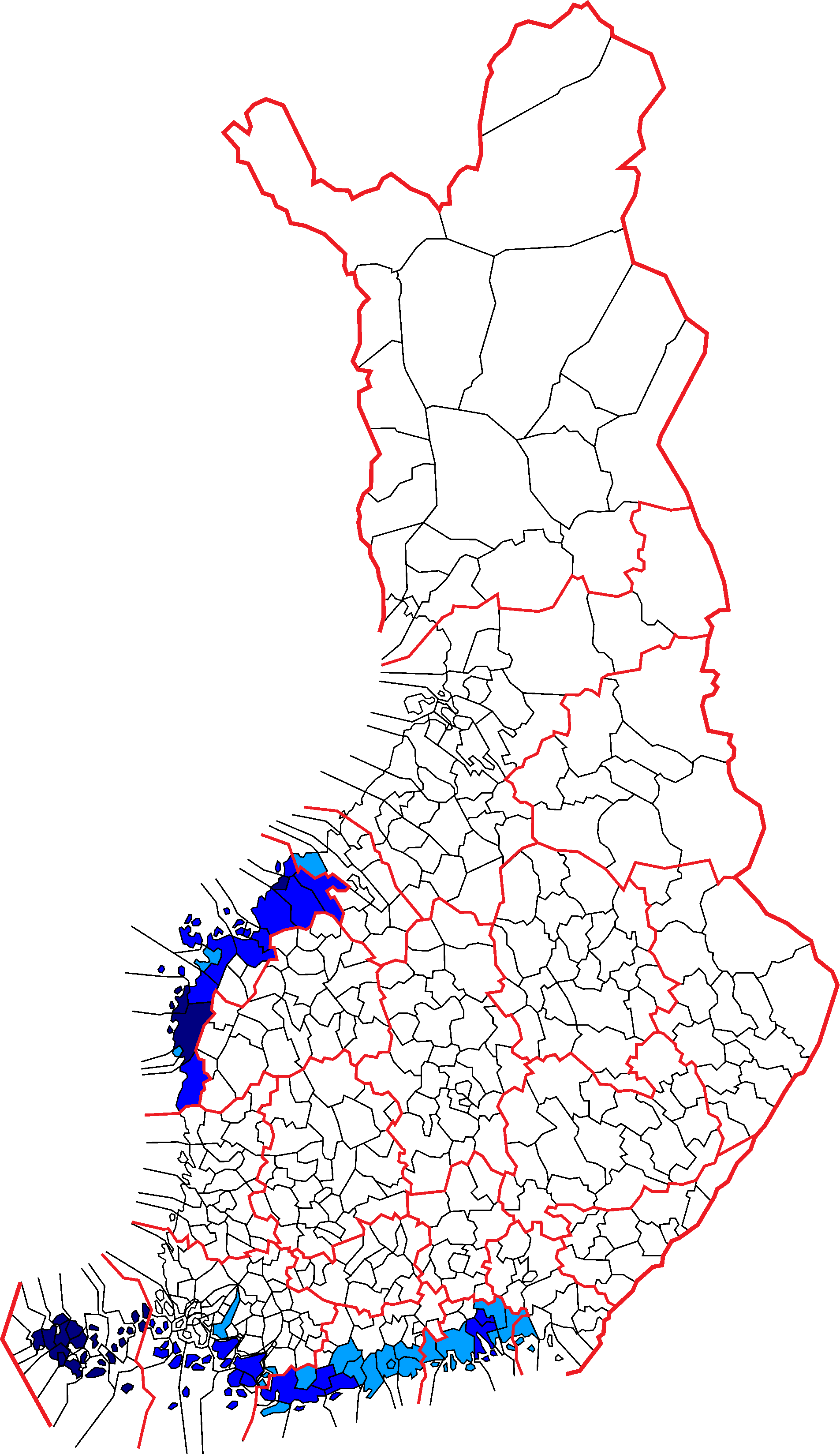 Location of the Swedish-speaking an bilingual cities and municipalties of Finland Dark blue: unilingually Swedish Middle blue: bilingual with Swedish as majority language Light blue: bilingual with Finnish as majority language White: unilingually Finnish